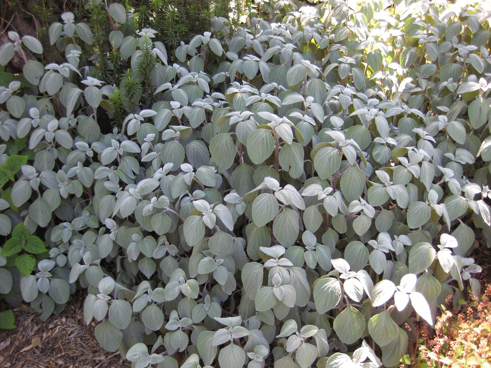 Plectranthus argentatus photographed at the Royal Botanic Gardens Melbourne (Australia) in December